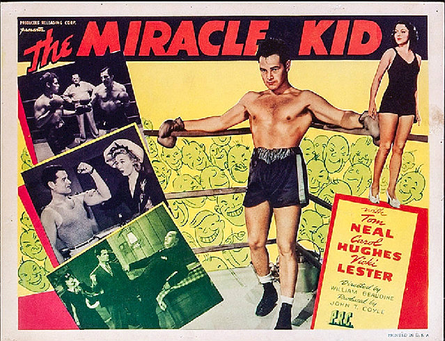 Lobby card for the American sports comedy film The Miracle Kid (1941). The item has no copyright marks on it as can be seen at links and original upload. At bottom right is Printed in USA.